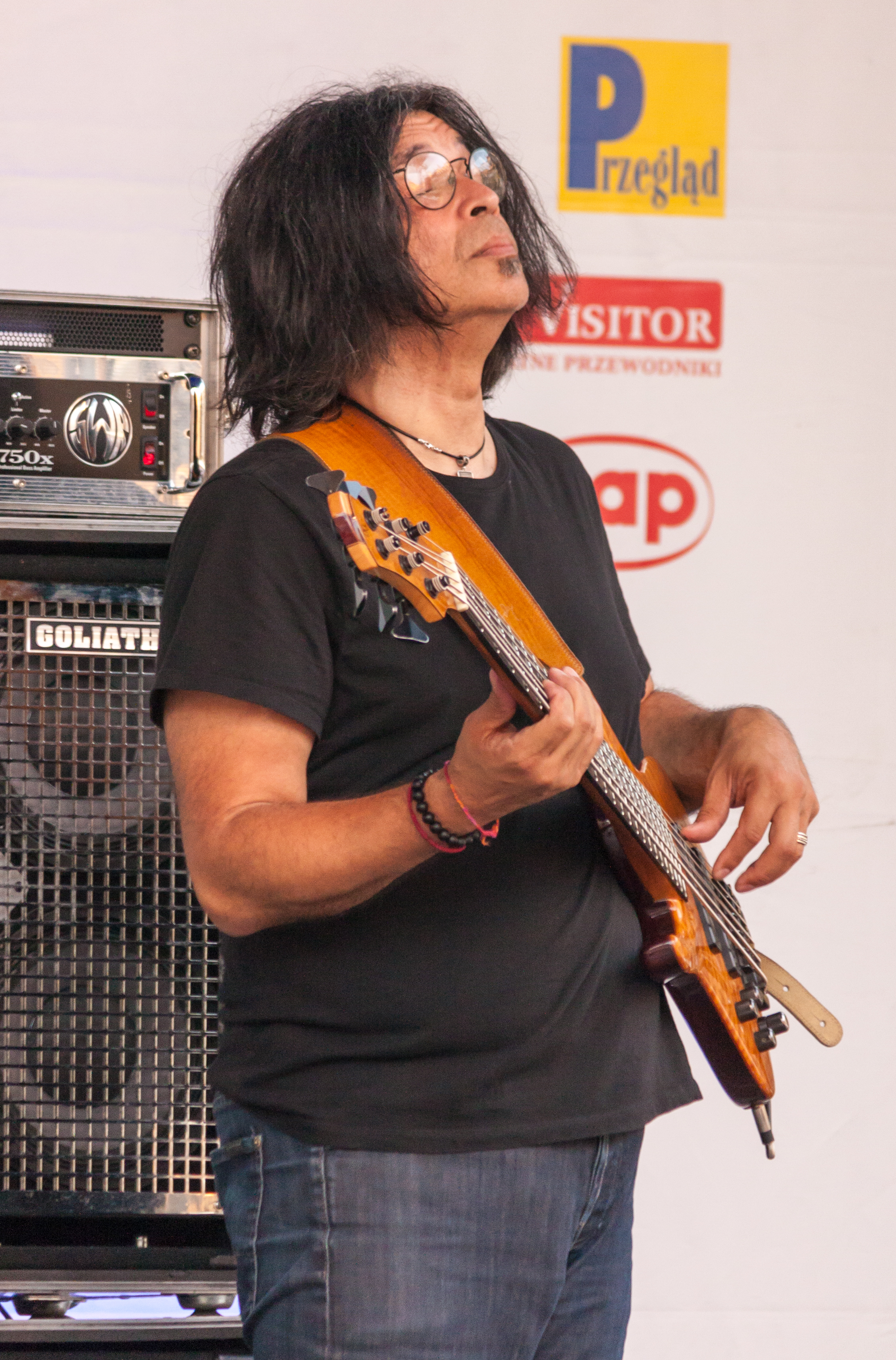 Jeff Lorber feat. Eric Marienthal - Jazz na Starówce festival 2012-08-04, Warsaw, Poland